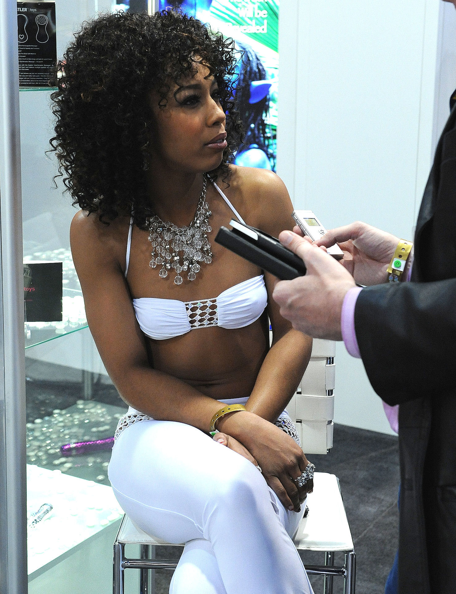 Misty Stone at AVN Adult Entertainment Expo 2011